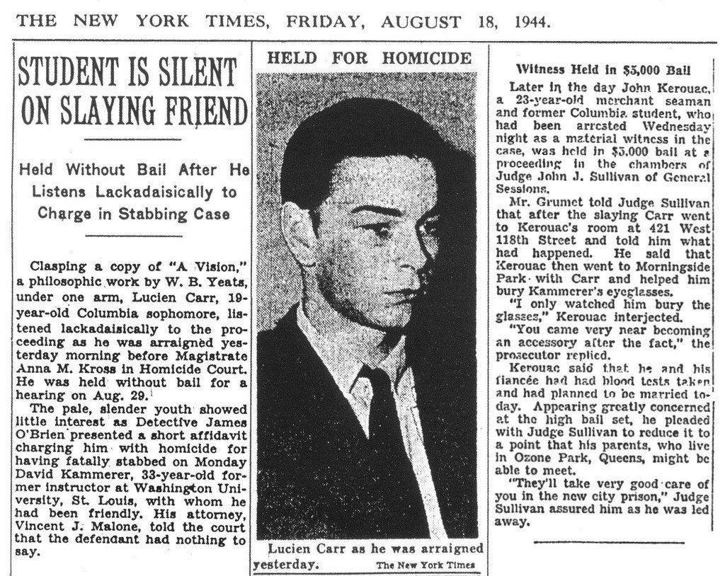 "Student is silent on slaying friend"